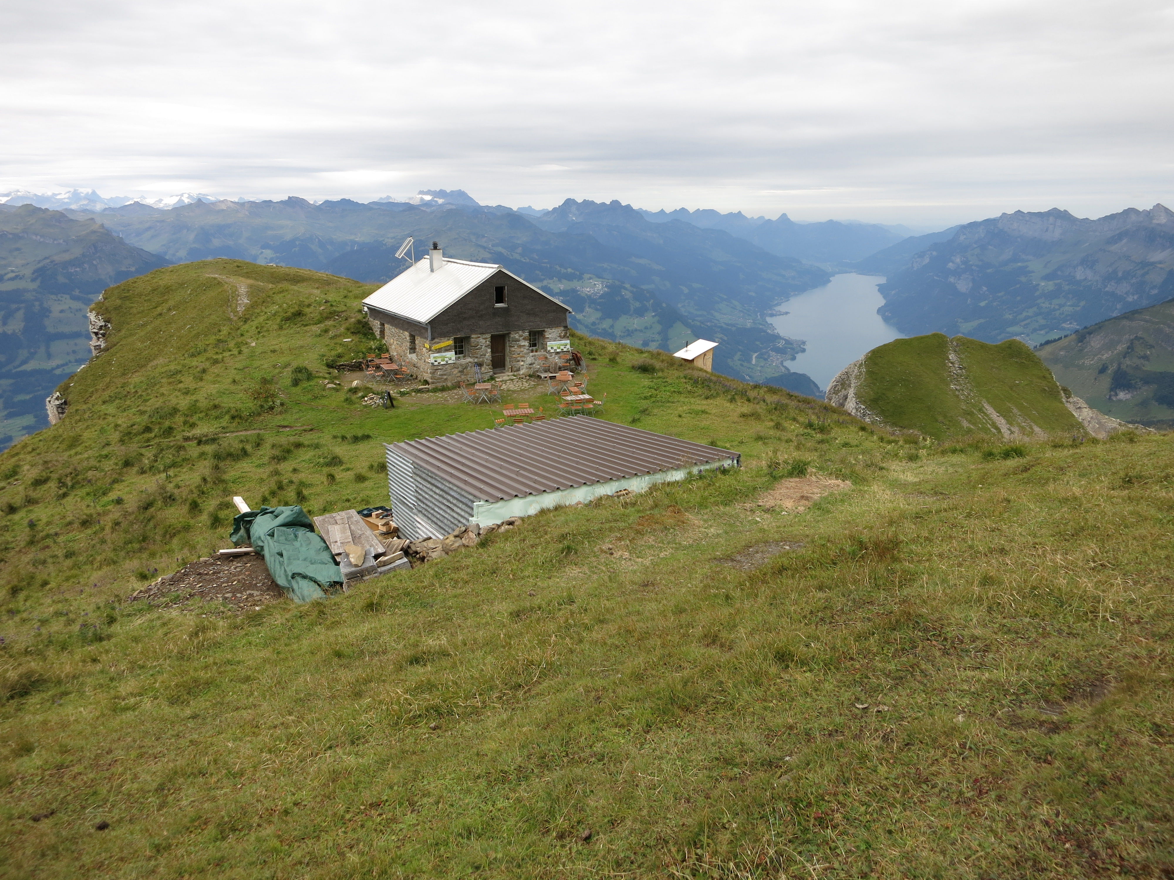 Alvier, mountain in Switzerland: view from top